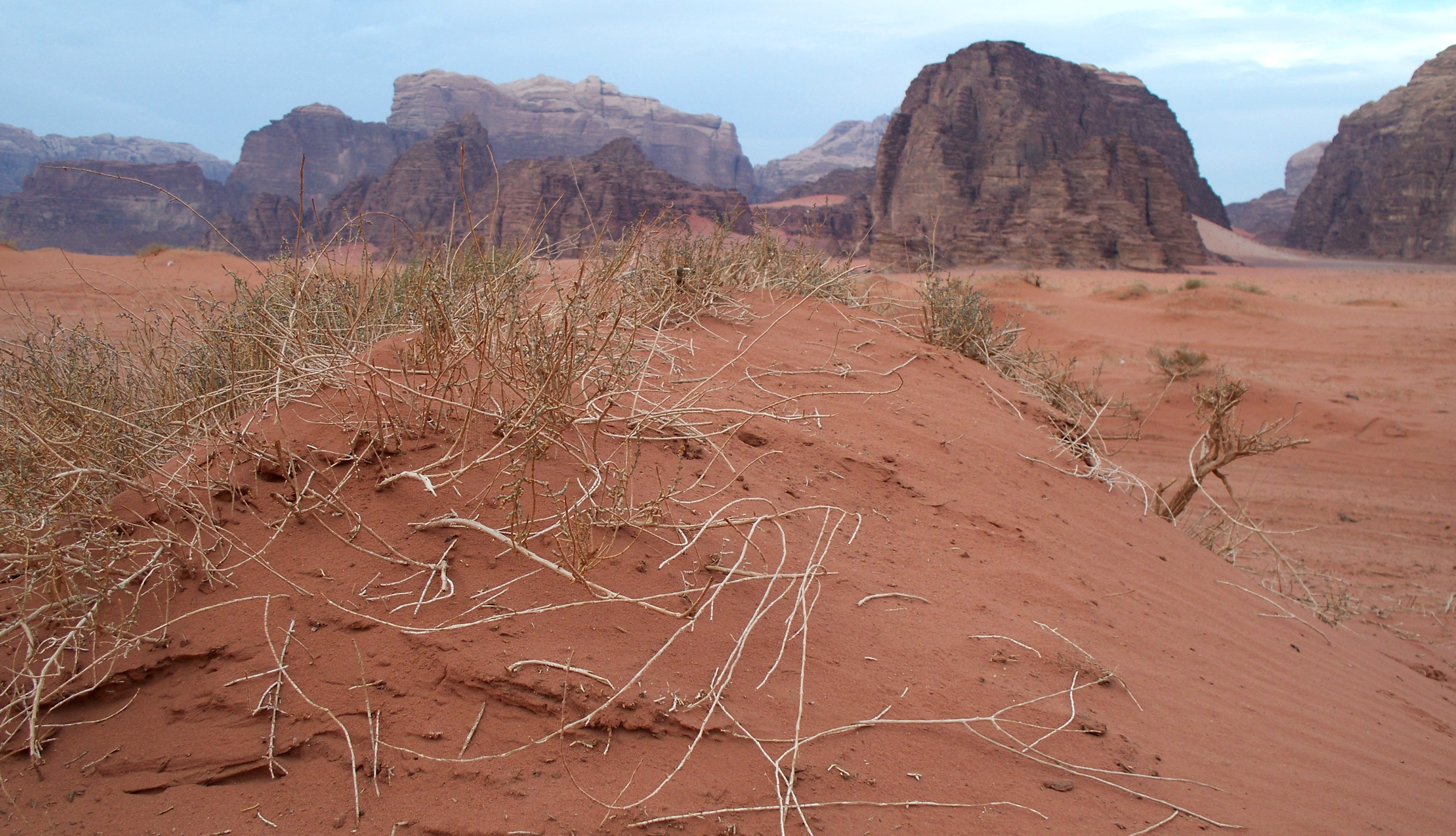 Wadi Rum in Jordan early in the morning.